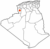 Blank map of the provinces of Algeria with a red city locator dot. Made by User:Escondites, blank version by User:Golbez.